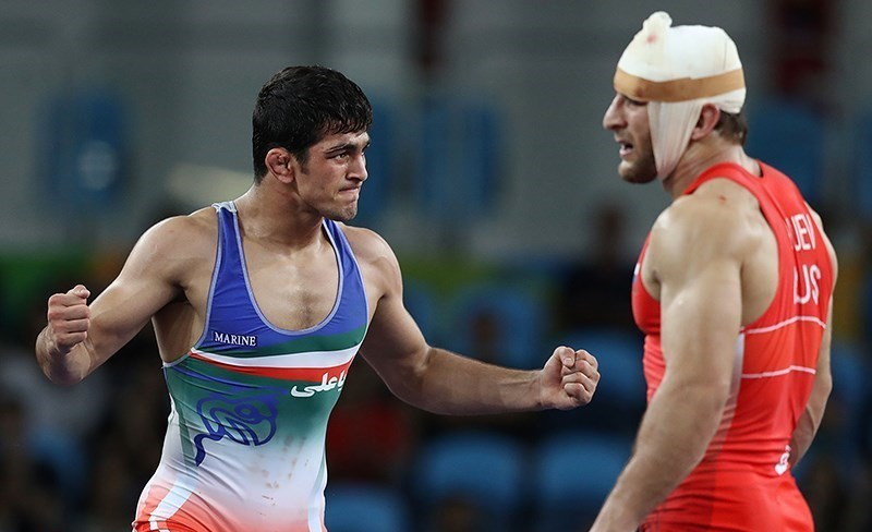 2016 Summer Olympics, Men's Freestile Wrestling 74 kg